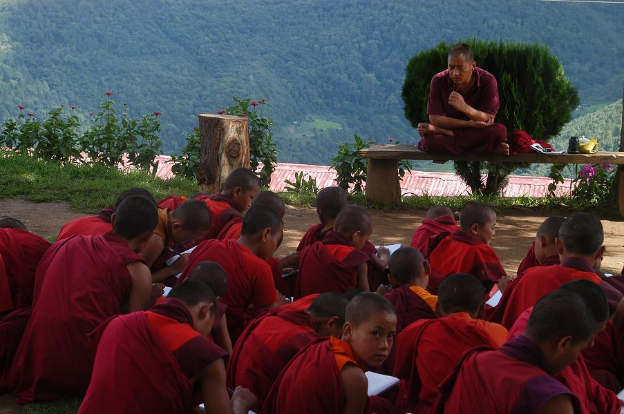 Nalanda Bhutan Principal Sonam Tshewang teeaching